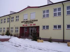 ZSR w Woli Osowińskiej.